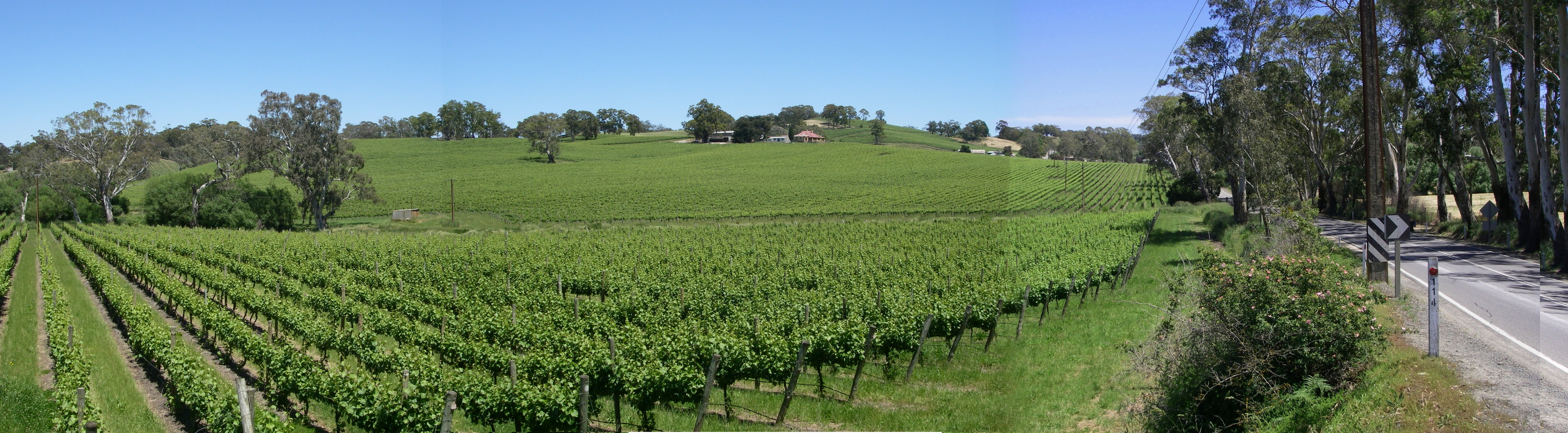 Vineyard outside the town of Lobethal in the Adelaide Hills, from Adelaide-Lobethal Road just west of the Lobethal town limits.